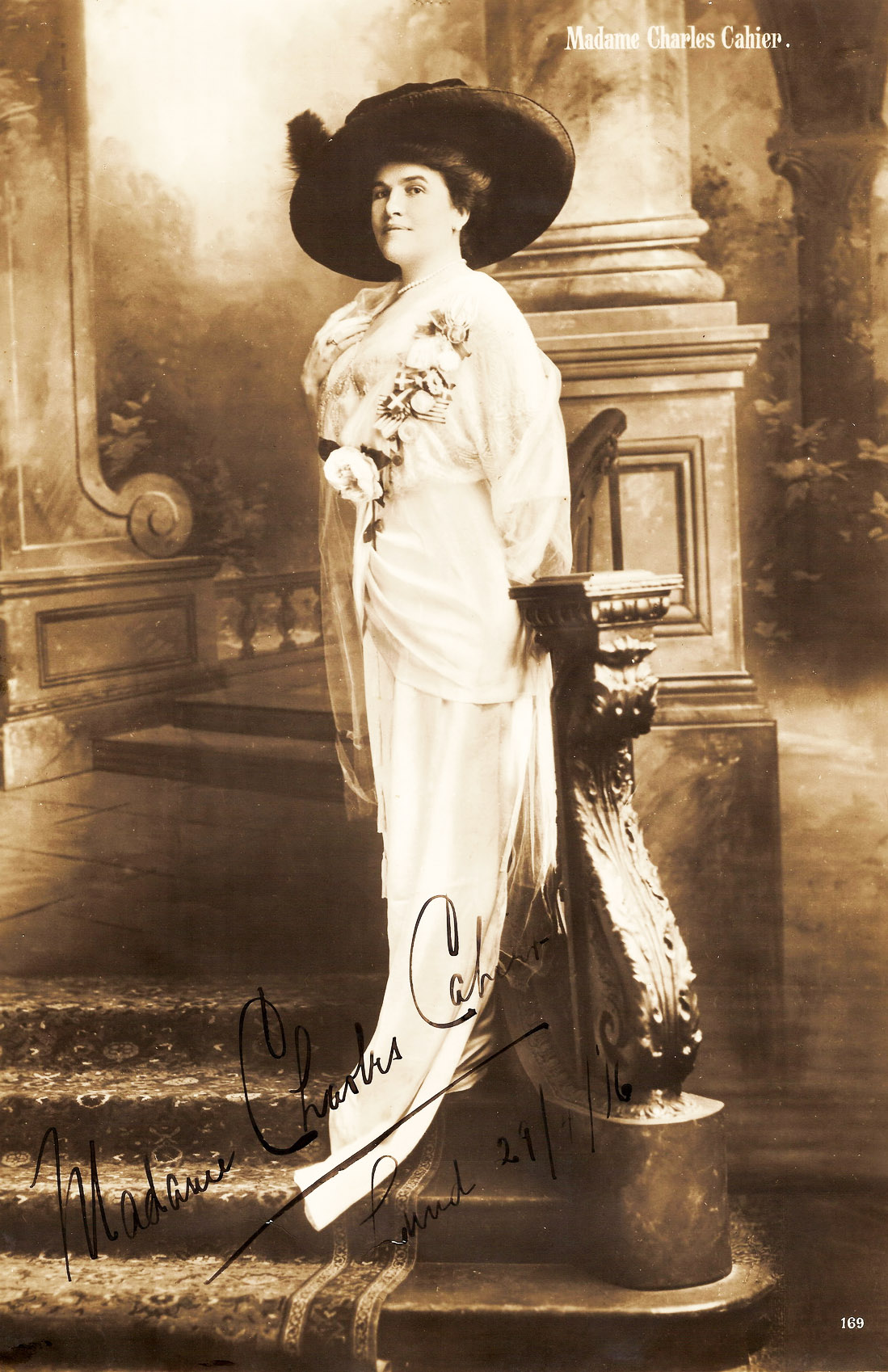 Sara Cahier, (Sarah Jeanne Layton-Walker), 1875-1951, american operasinger and pedagog.